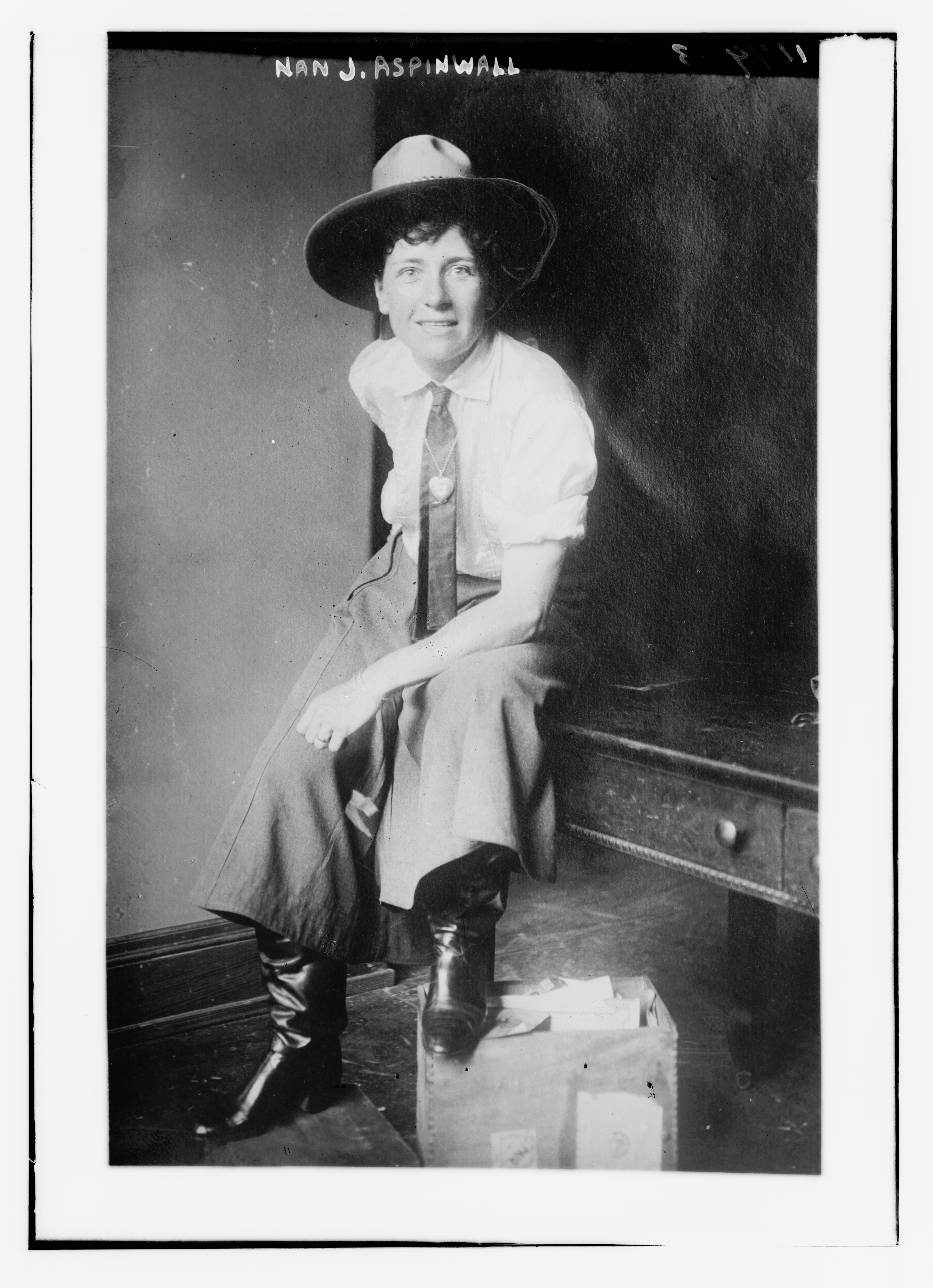 Title: Nan J. Aspinwall Abstract/medium: 1 negative : glass ; 5 x 7 in. or smaller.